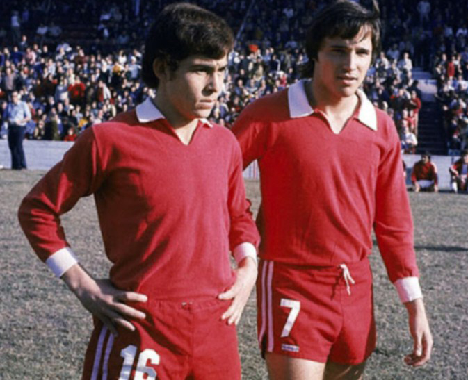 Ricardo Bochini and Daniel Bertoni.